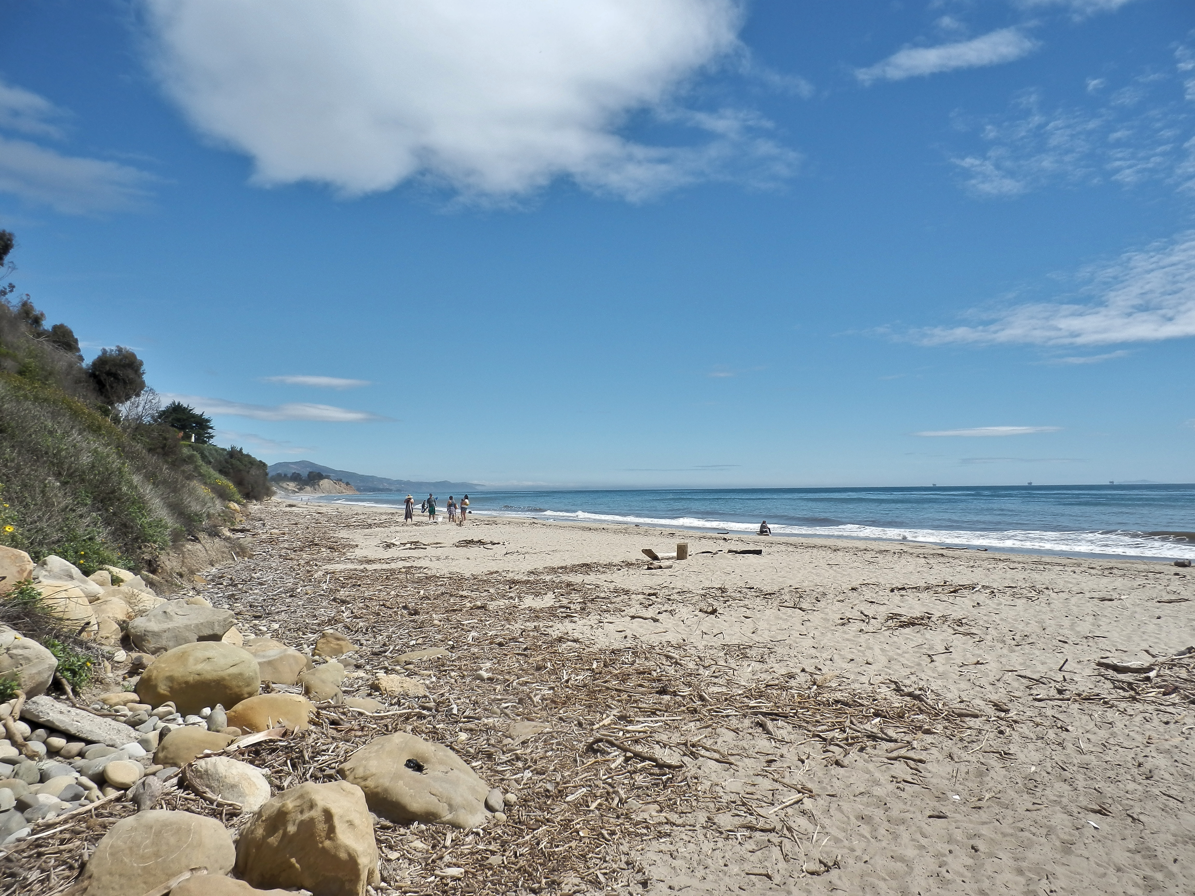 Summerland Beach